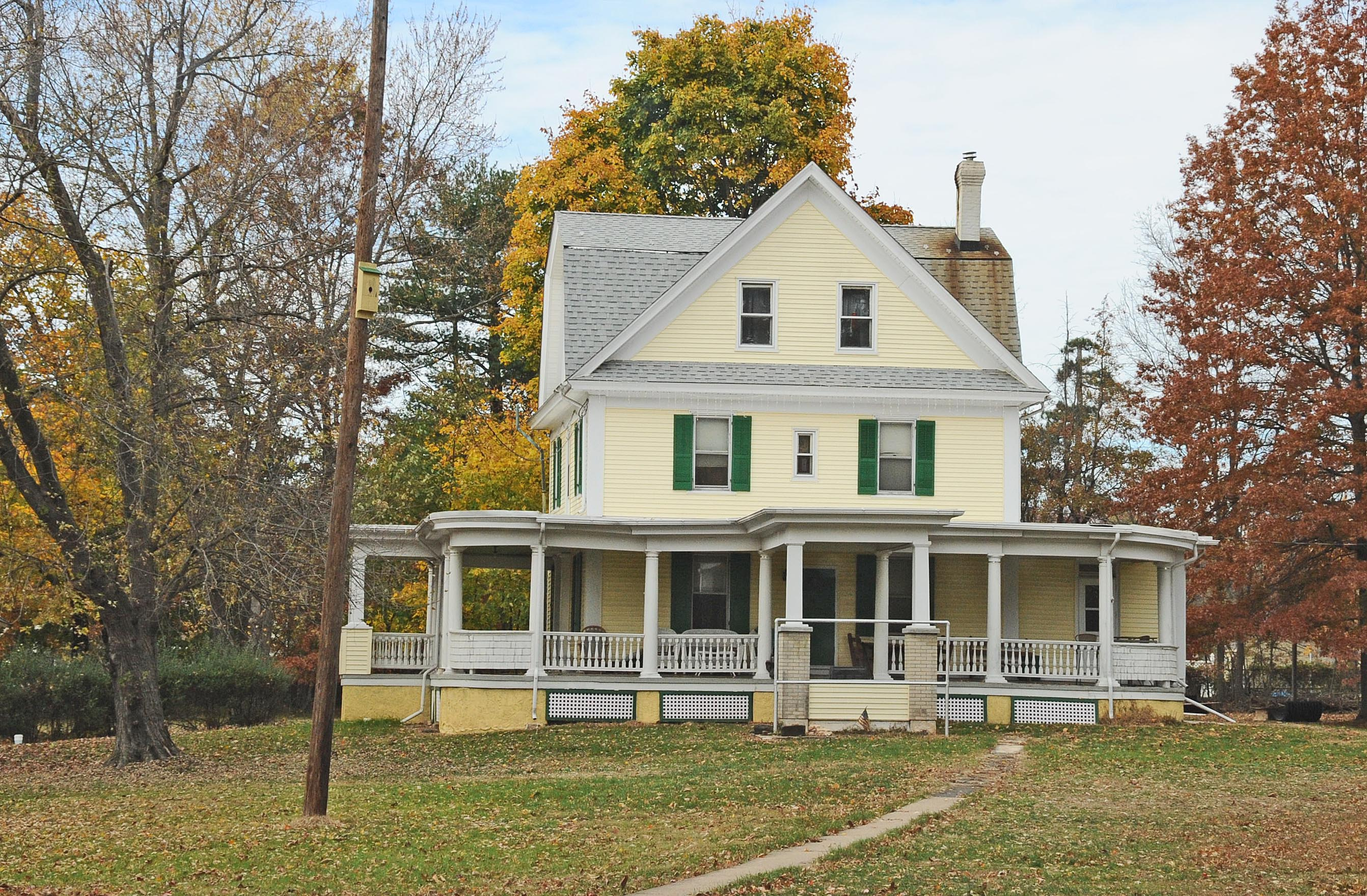 NO INFORMATION AVAILABLE AS TO DATE OR STYLE BUT HOME IS AT THE END OF A LONG LANE AND IS SURROUNDED BY SEVERAL BARNS AND OUTBUILDINGS